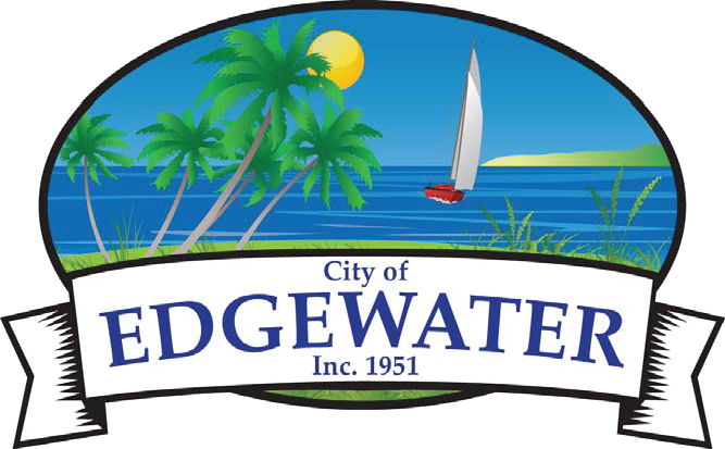 Seal of Edgewater, Volusia County, Florida